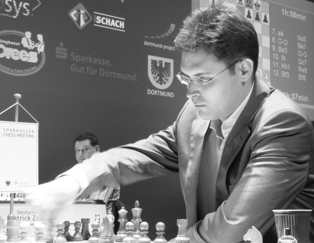 GM Peter Leko (HUN), Sparkassen Chess-Meeting Dortmund 2008